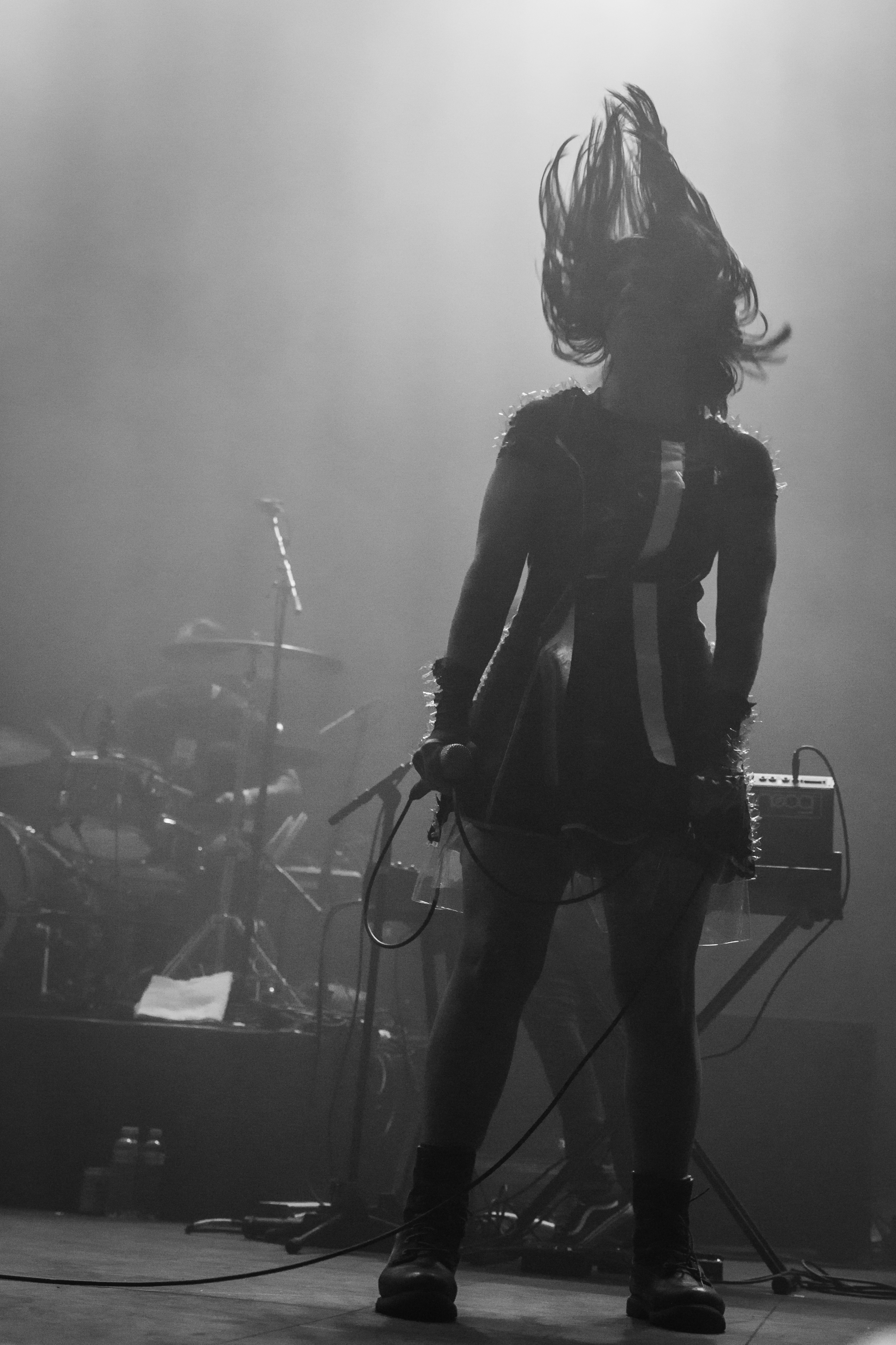 Cult of Luna & Julie Christmas performing live at Roadburn Festival 2018